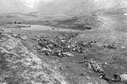 Dead Japanese military personnel lie where they fell on Attu Island after a final banzai charge against American forces on May 29, 1943 during the Battle of Attu.